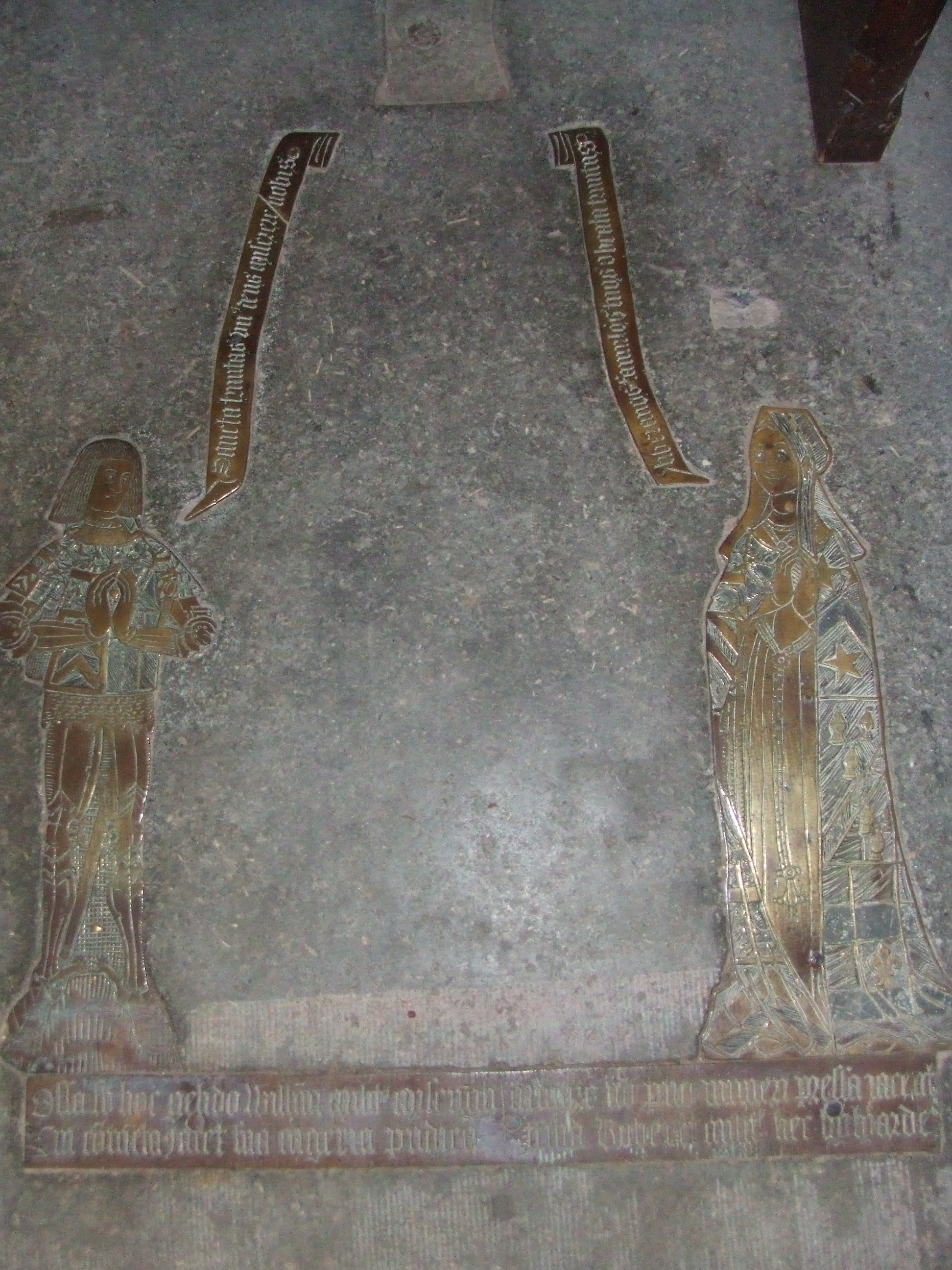 Medieval brass of Sir William Ayscough and his lady wife found in Stallingborough church. Taken August 2007: Barbara Ainscough. To be included in Ainscough page - article about Lincolnshire/ notable Ayscough.